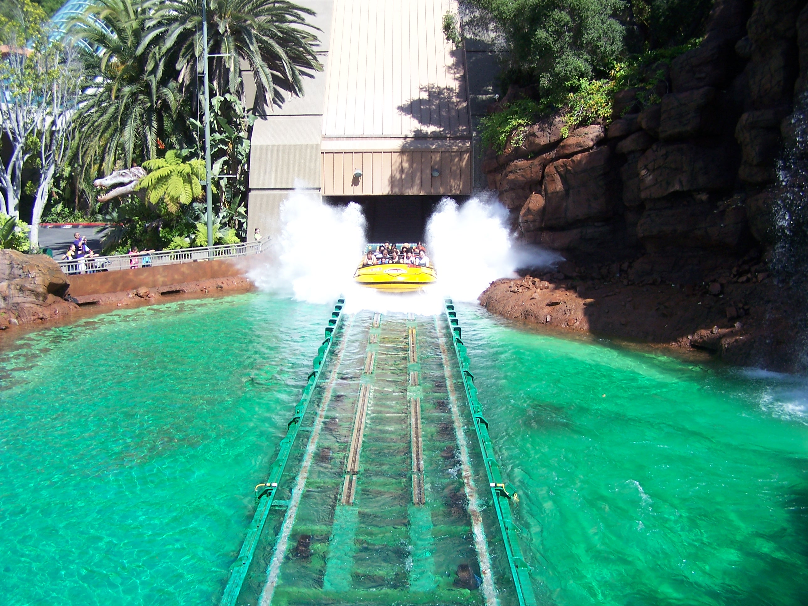 The Jurassic Park River Adventure ride in Universal Studios Hollywood.